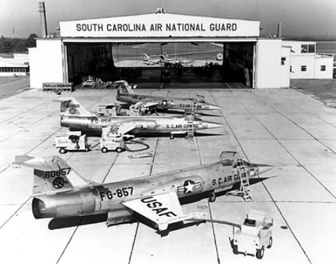 U.S. Air Force Lockheed F-104A-25-LO Starfighters from the 157th Fighter Interceptor Squadron, South Carolina Air National Guard, at McEntire Air National Guard Base, South Carolina, in the early 1960s.